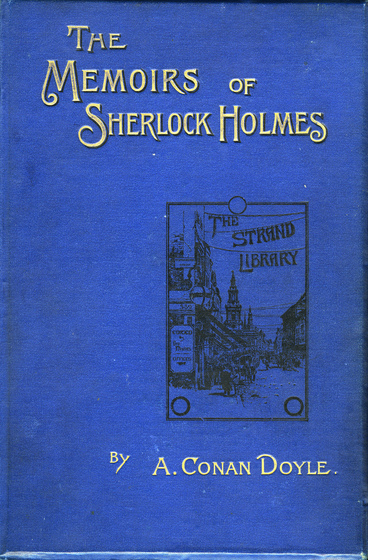 Title: The Memoirs of Sherlock Holmes Creator: Arthur Conan Doyle Date: 1894 Published: London: G. Newnes Identifier: 823.91 D598.4 1894; P1_memoirs of SH_front Format: Book Rights: Public domain Courtesy: Toronto Public Library After publishing the Holmes stories in their magazine The Strand, Newnes also offered the stories bound in assorted cheap or fine editions such as this first edition of The Memoirs of Sherlock Holmes. This image is available from the Toronto Public Library under the reference number 823.91 D598.4 1894; P1_memoirs of SH_front This tag does not indicate the copyright status of the attached work. A normal copyright tag is still required. See Commons:Licensing for more information. English | français | +/−